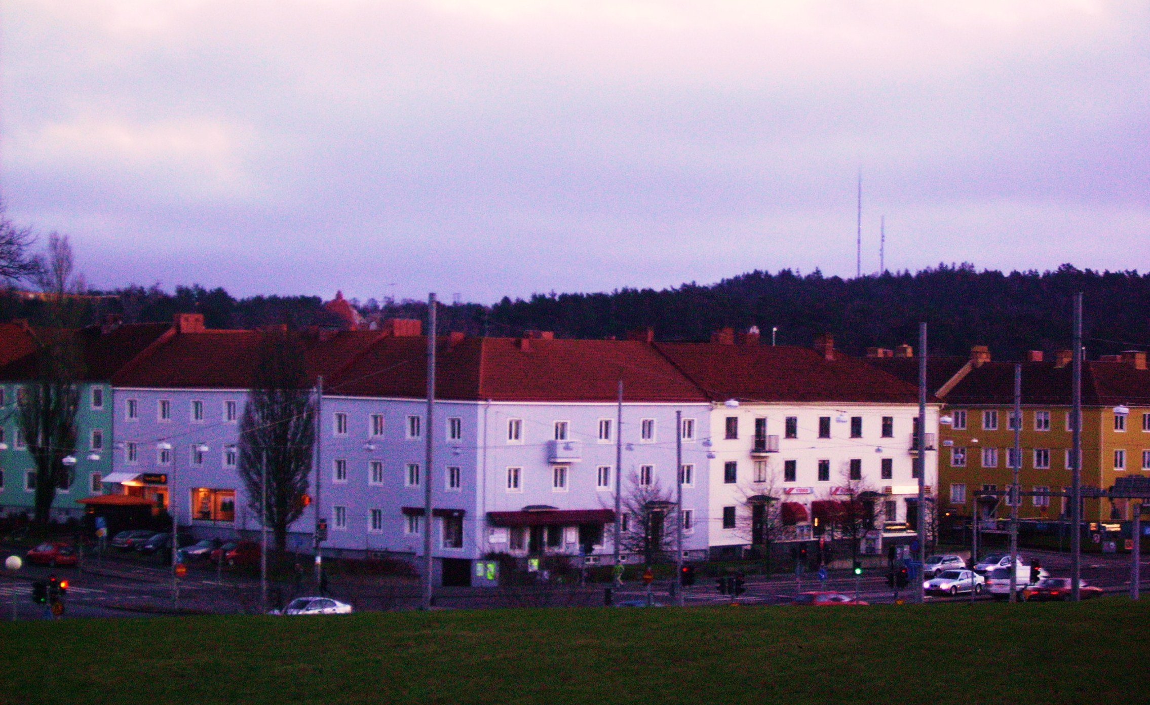 Picture of Munkebäckstorget in Gothenburg, Sweden